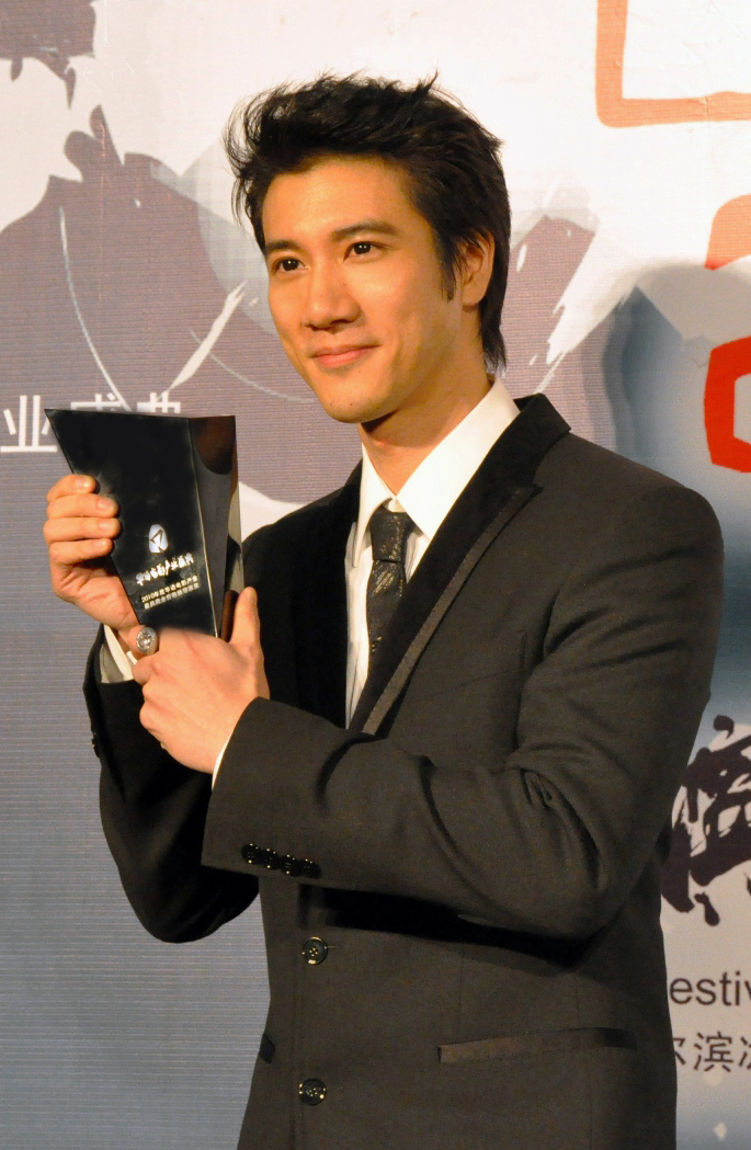 Wang after winning "Best New Director" at Harbin Film Festival January 16, 2011.